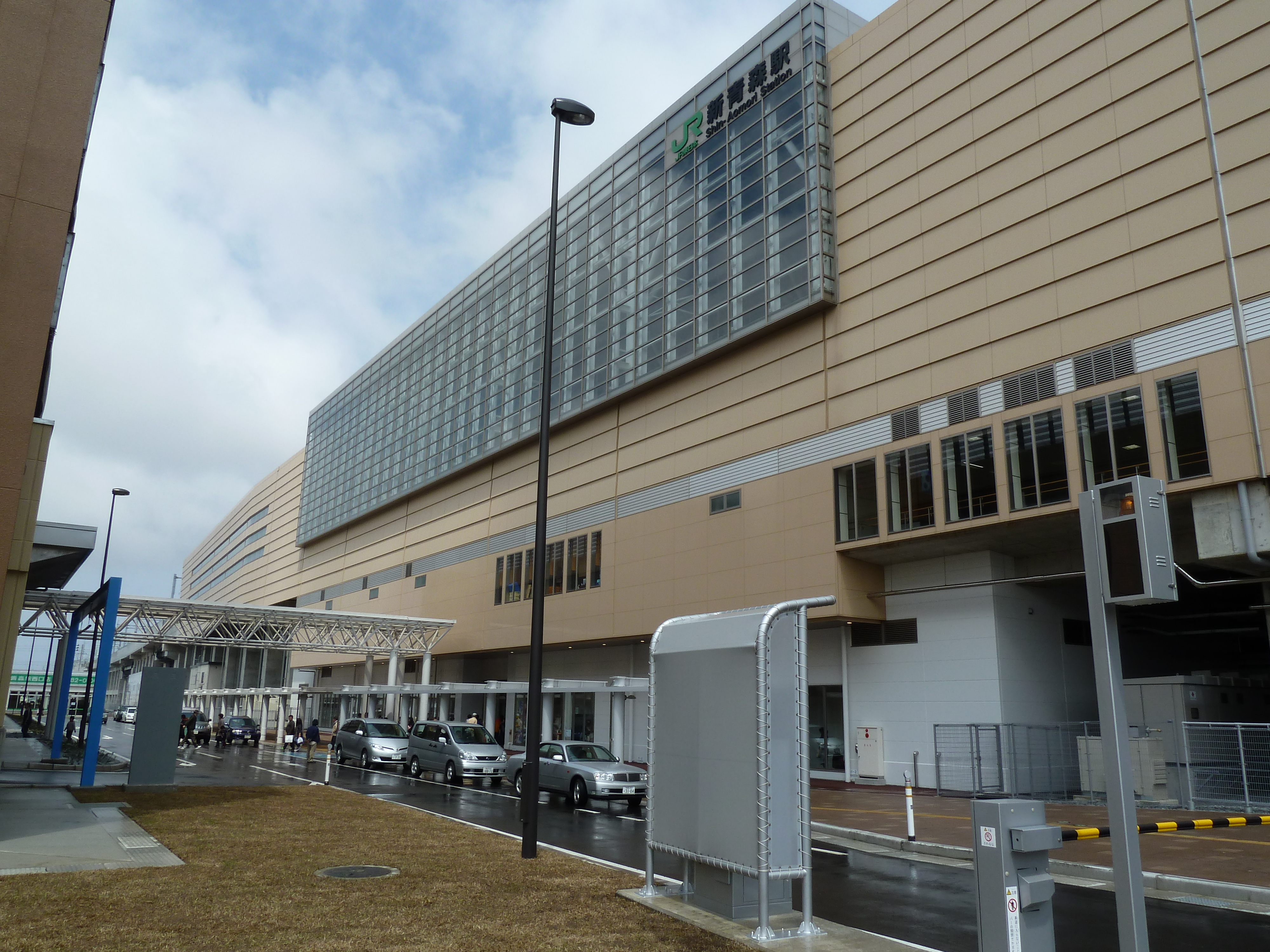 新青森駅 西口